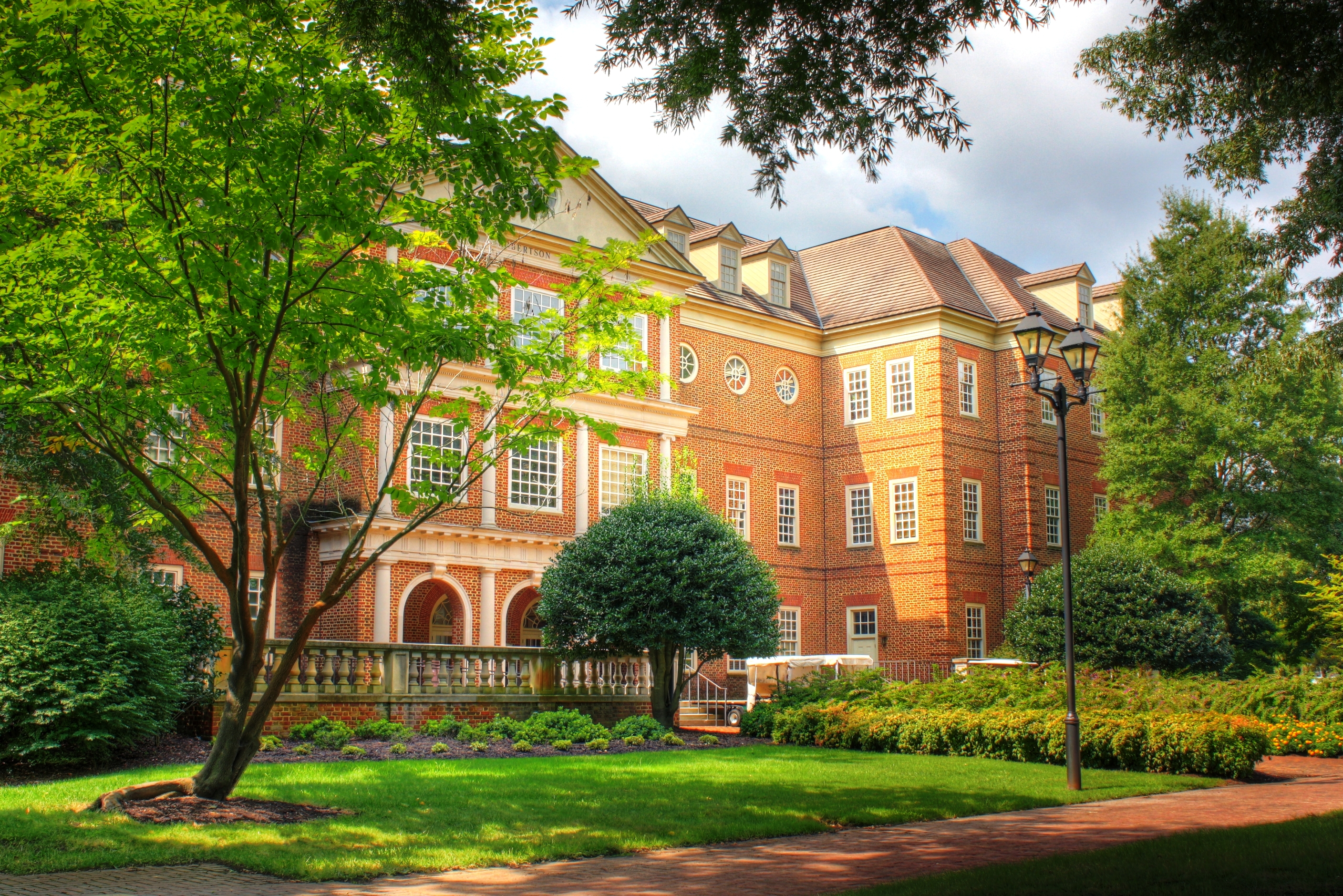 Robertson Hall, the largest classroom and office building on the Regent University campus and home to the School of Law and Robertson School of Government.